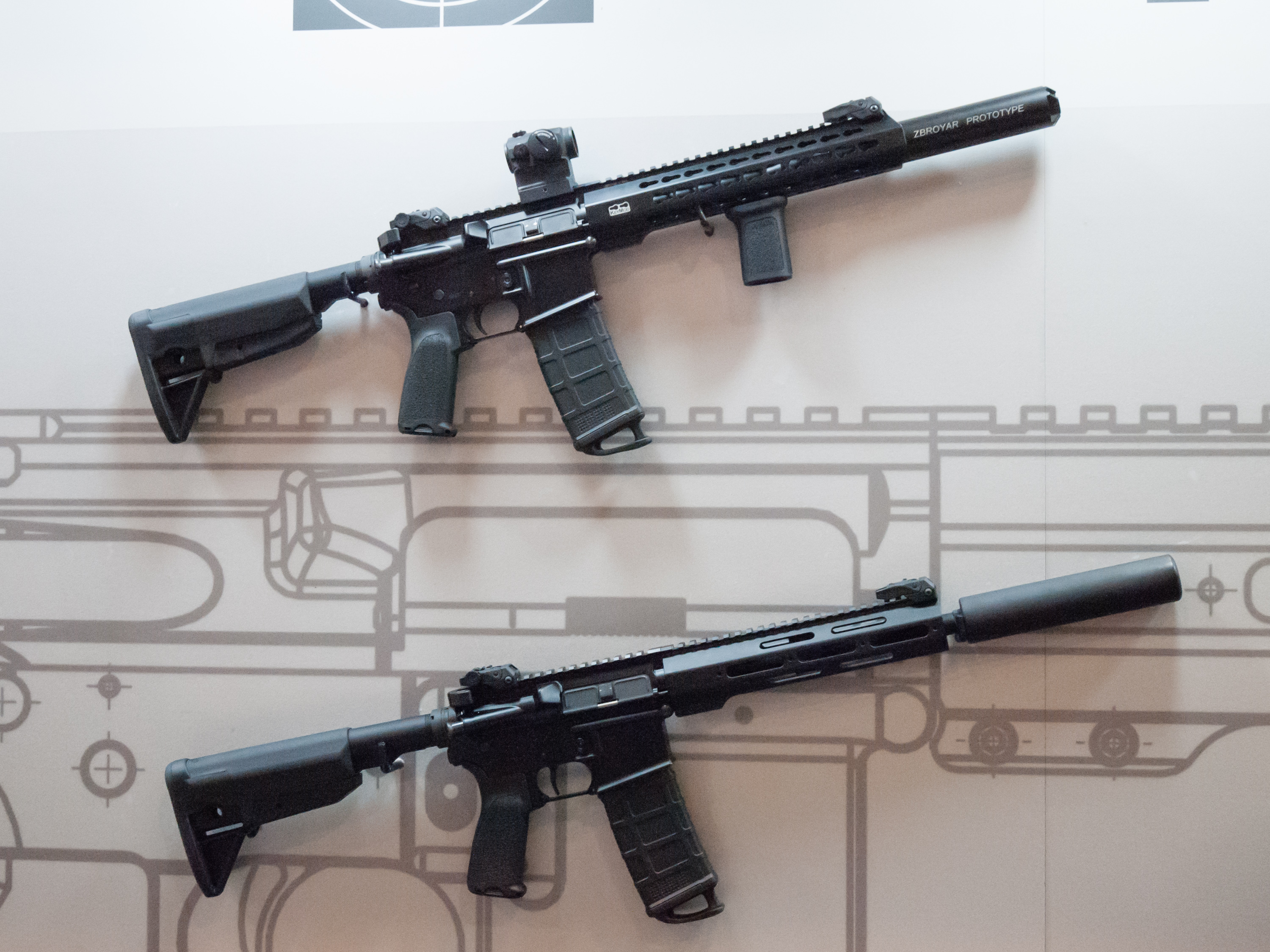 Zbroyar Z-15 automatic rifle (Ukraine)